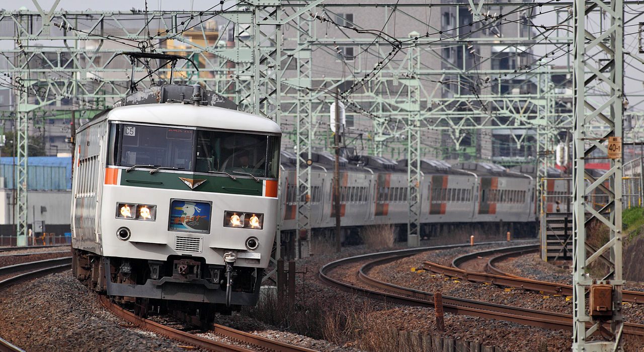 JNR 185 series of JR East on Shōnan Liner ( C5F / Yokohama Sta. ~ Kawasaki Sta. ).